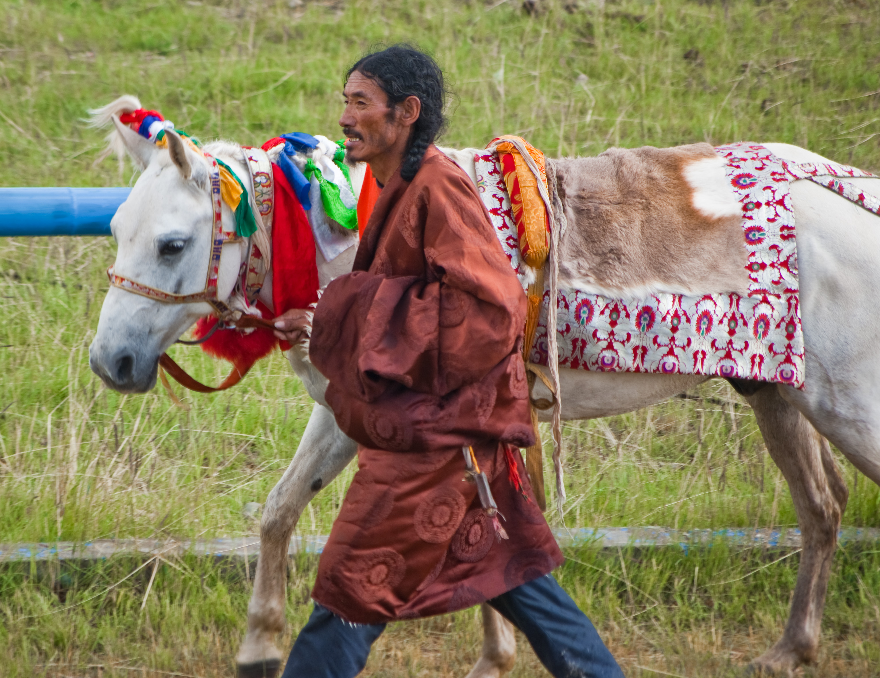 People of Tibet (in Nagqu Horse festival)